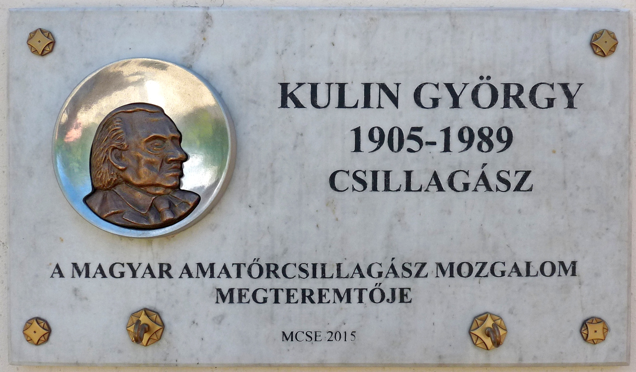 Commemorative plaque to Mr. György Kulin (1905–1989) Hungarian astronomer, founder of the amateur astronomy movement in Hungary. It was affixed to the wall of the Polaris Observatory in Óbuda and unveiled on January 28, 2015 on the occasion of the astronomer's 110th birthday. The author of the plaque as well as the bronze relief is Mr. Géza Marton medalist and sundial maker. (Budapest, District III, Laborc Street Nr 2/c)